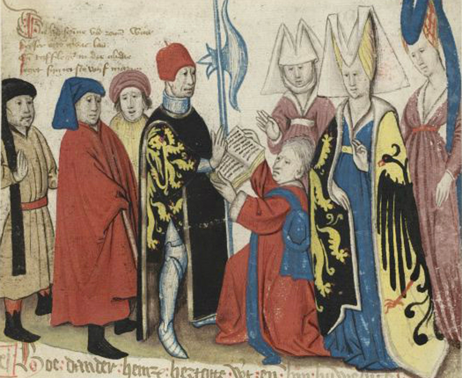 Marriage of Henry II of Brabant and Marie of Hohenstaufen